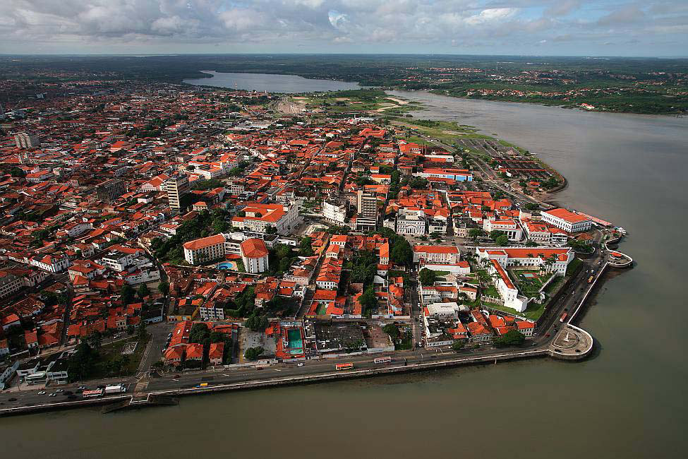 Photo of São Luís, Maranhão, Brazil